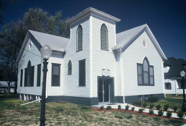 View of the Stafford Reformed Presbyterian Church, a Gothic Revival church in Stafford, Kansas, United States. Located at 113 N. Green St., the church was built in 1913 by a newly-organized congregation of the Reformed Presbyterian Church of North America; the church closed in 1961. Listed on the National Register of Historic Places since 2005, the church is today owned and operated by the Henderson House Inn and Retreat Center.